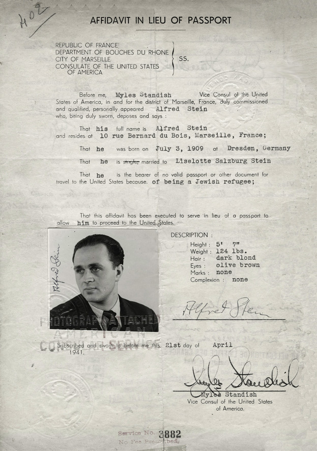 Affidavit in Lieu of an American passport for Alfred Stein and his wife. Issued in April 1941 at the US consulate in Marseilles, France. This document was crucial for the Steins to board a steamer to New York.